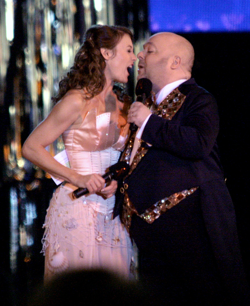 Elke Winkens and Dirk Bach at the Life Ball 2009, Rathaus, Vienna.